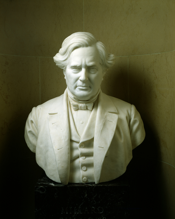 Millard Fillmore by Robert Cushing (1841 - 1896) Marble, Modeled 1894, Carved 1895 Overall (bust) measurement Height: 30.25 inches (76.8 cm) Width: 26.5 inches (67.3 cm) Depth: 18 inches (45.7 cm) Unsigned Cat. no. 22.00012.000